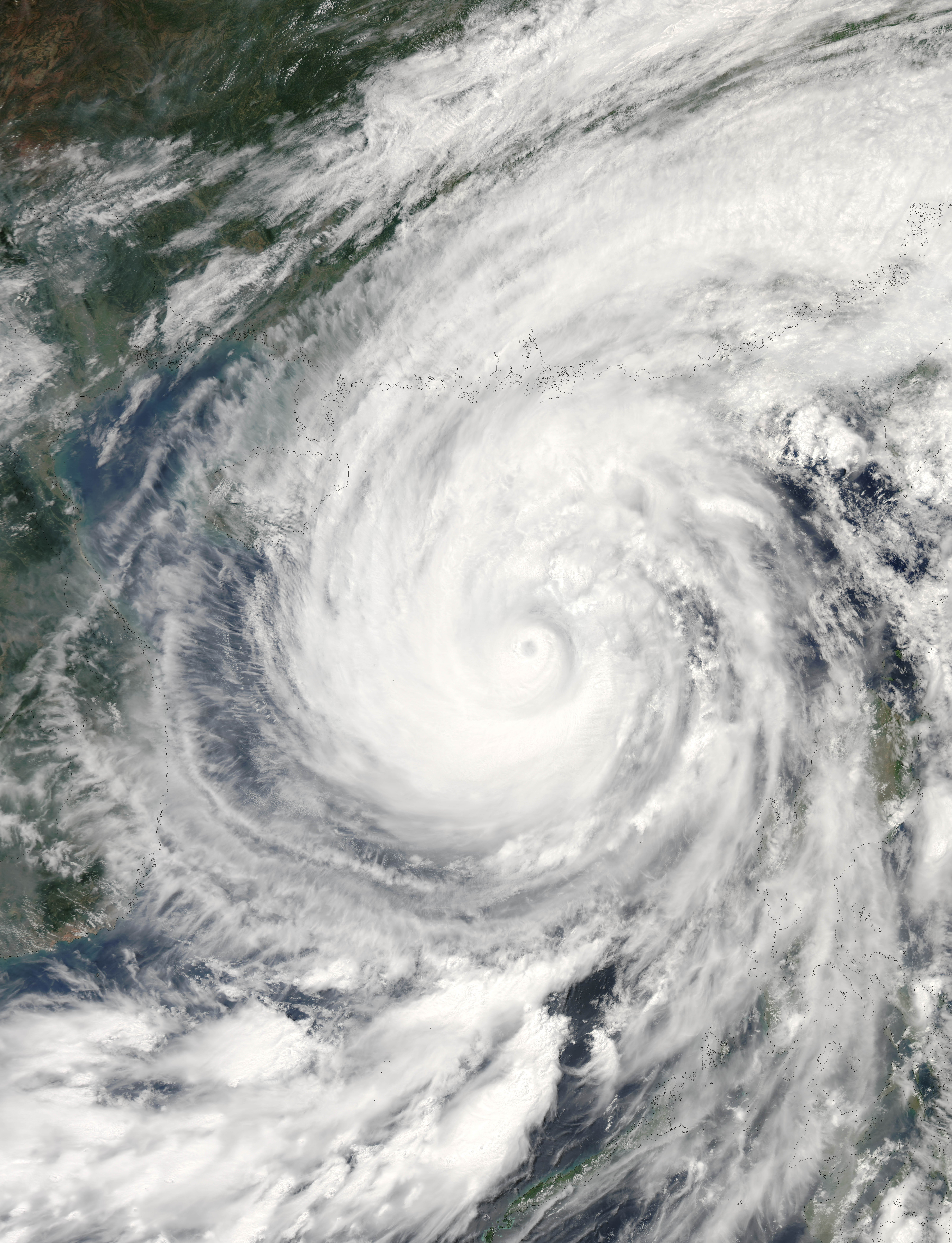 Tropical Storm Chanchu formed in the western Pacific on May 8, 2006, roughly 500 miles east of the Philippines. The storm gradually built strength and size, reaching typhoon strength by May 11. It lost some strength as it crossed the Philippines, but once clear of the islands, it regained power and became a typhoon, with powerful winds and a large cyclonic structure. The storm continued on a northwesterly track across the South China Sea towards the island of Hainan, located northwest of center in this image, and Southeast Asia, along the image’s left edge. This photo-like image was acquired by the Moderate Resolution Imaging Spectroradiometer (MODIS) on the Aqua satellite on May 16, 2006, at 1:50 p.m. local time (05:40 UTC). The typhoon has a huge spiral-arm structure in this image, and a well-defined cyclone shape. It also had a distinct, but cloud-covered eye (sometimes known as a “closed eye”) in the center. The closed eye is slightly less cloudy than it appeared to MODIS two days earlier, indicating that the typhoon has continued to gain power: only the most powerful storms typically develop cloud-free “open” eyes. Sustained winds in the storm system were estimated to be around 200 kilometers per hour (125 miles per hour) around the time the image was captured, according to the University of Hawaii’s Tropical Storm Information Center. The high-resolution image provided above is provided at the full MODIS spatial resolution (level of detail) of 250 meters per pixel. The MODIS Rapid Response System provides this image at additional resolutions.